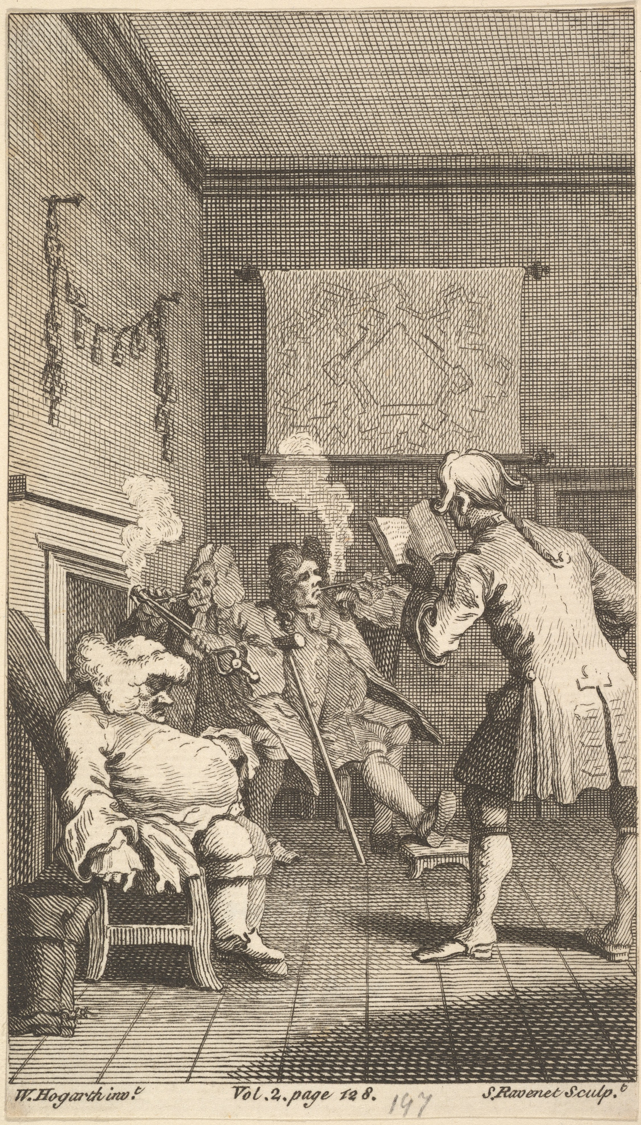 Print; Prints